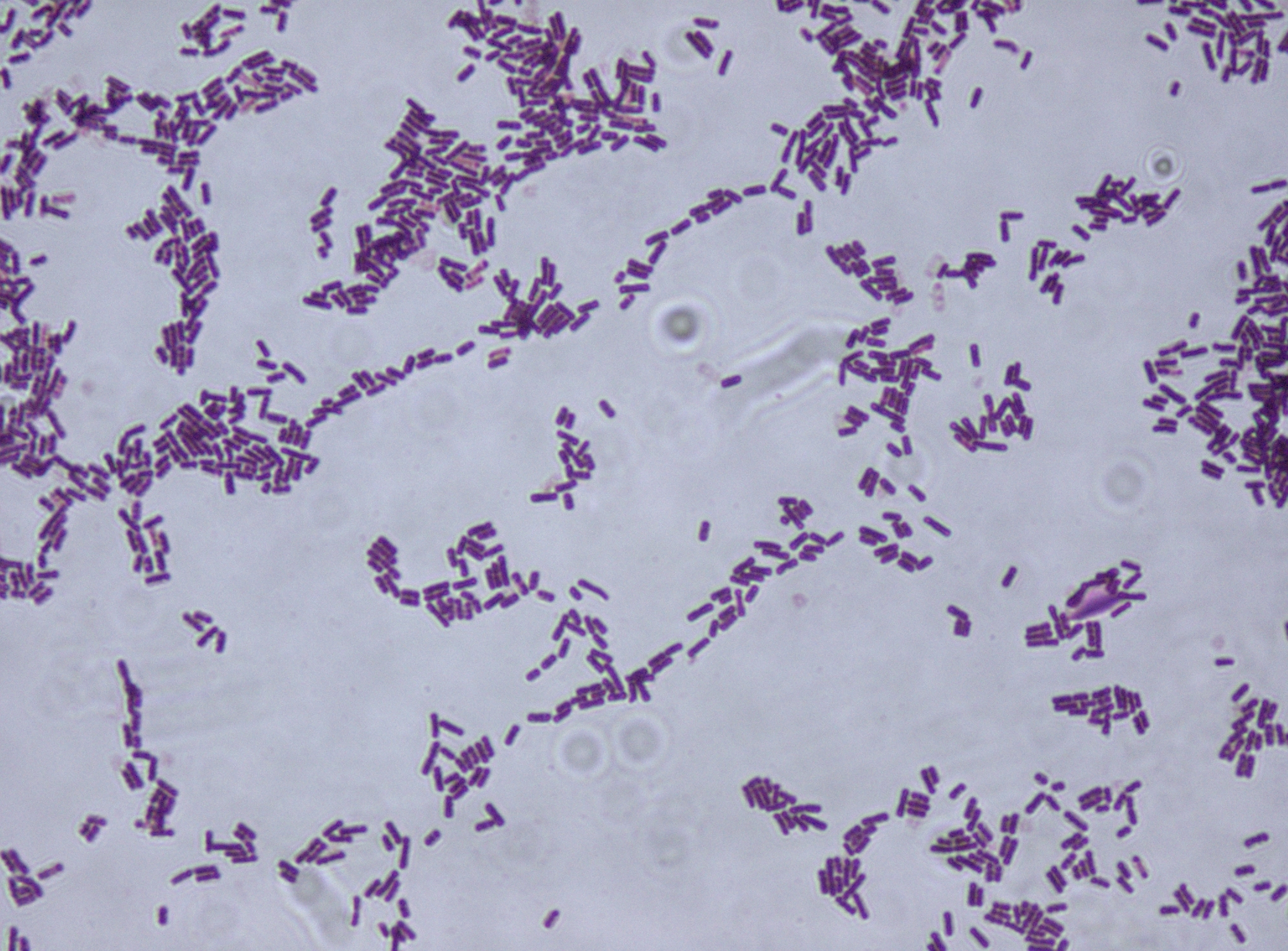 Gram stain